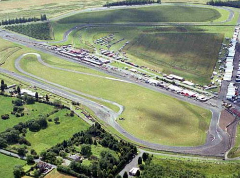 Croft Circuit : North Yorkshire. Aerial Photograph : Looking West As part of a compulsory land order by the government and because of Croft's unique vantage point in terms of air travel (follow the Tees, then turn left) 160 acres of farm land (including North,Middle and South Walmire Farms)was commissioned as a relief landing ground for nearby Middleton St George.